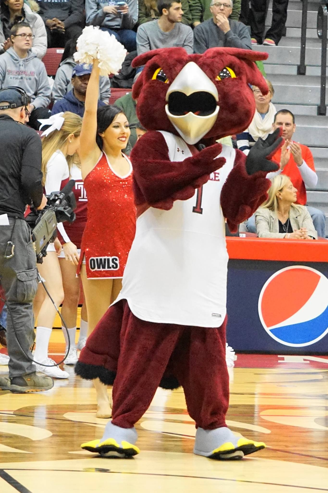 Hooter, the Temple mascot, appearing at the UConn Temple game on 1 February at McGonigle Hall.